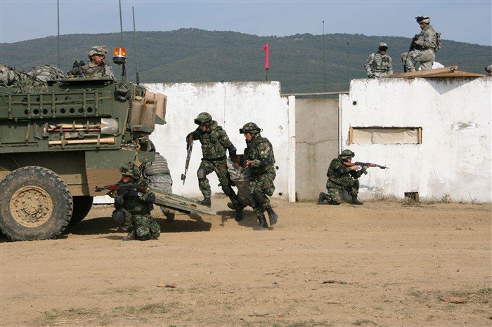 Bulgarian Land Forces of the 61st Mechanized Brigade from Karlovo provide security while others capture a high-value target, a role played by a U.S. Army soldiers of the 2nd Squadron, 2nd Stryker Cavalry Regiment, out of Vilseck, Germany, during bilateral training conducted in Bulgaria.